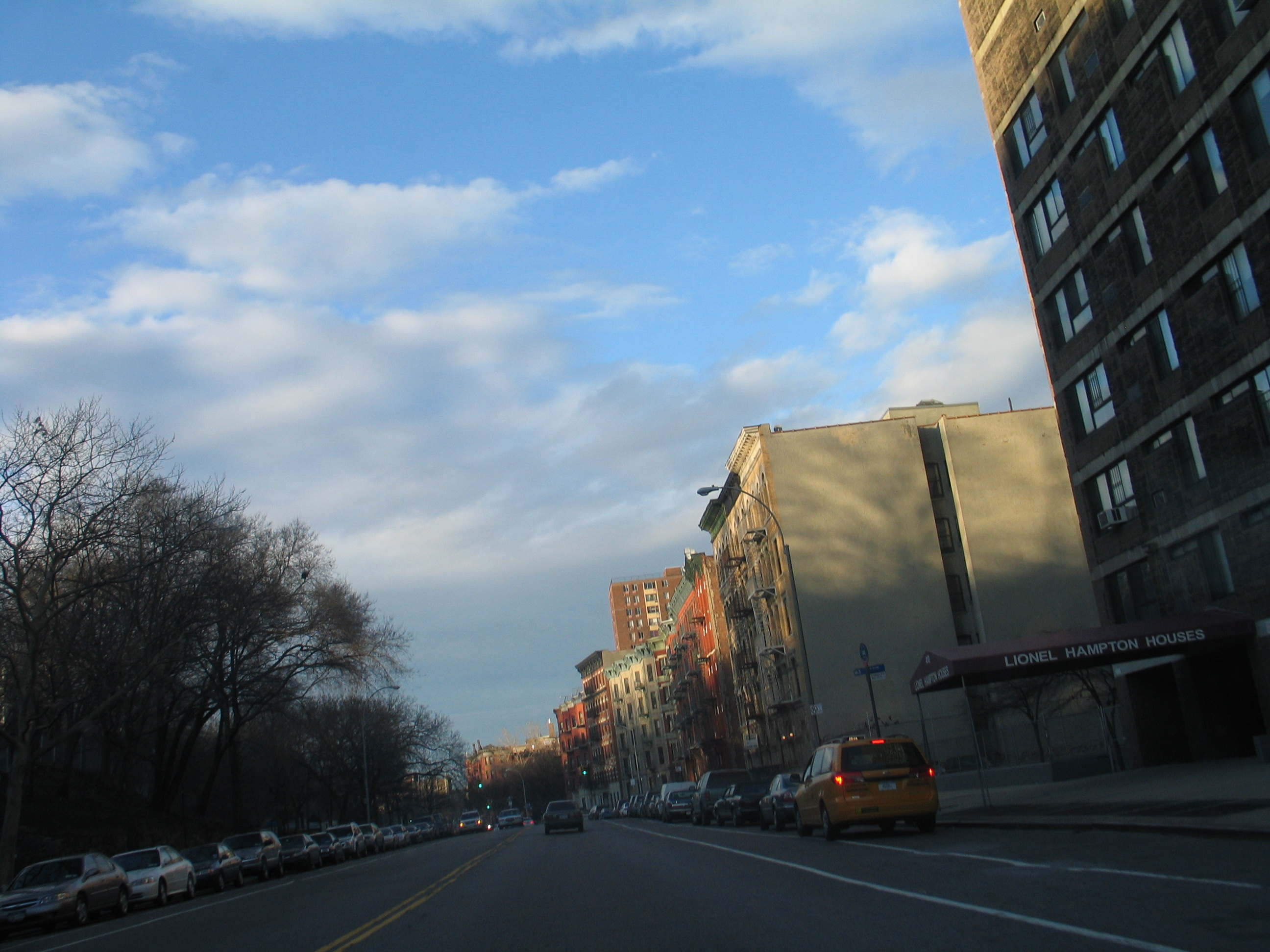 Lionel Hampton Houses housing project in Harlem.